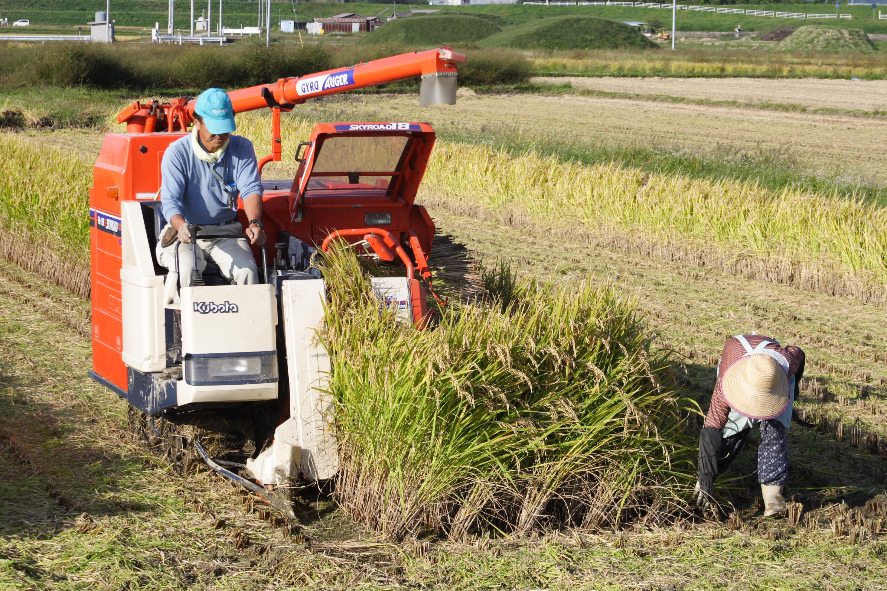 a Kubota combine harvester harvesting rice in Japan